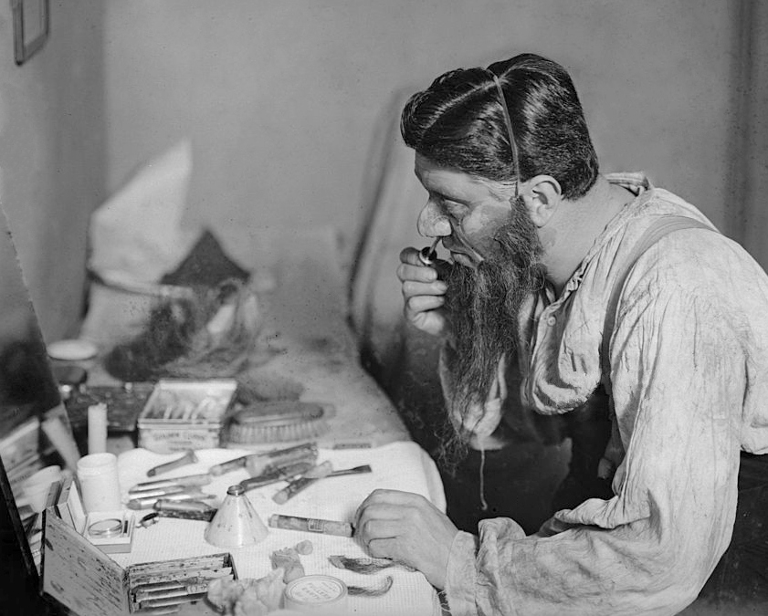 English actor and mimic Bransby Williams (1870-1961) making up as Fagin.